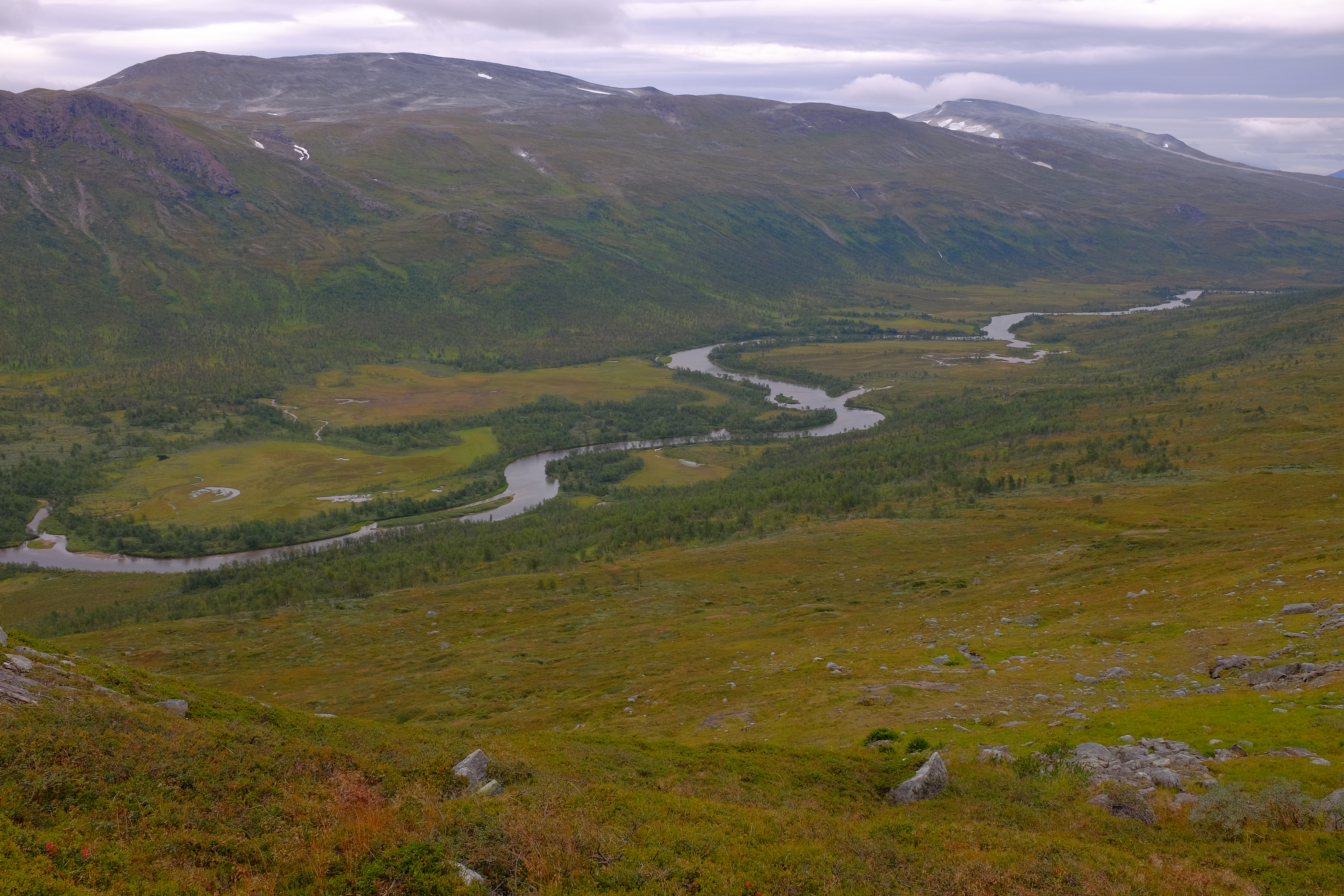 View beyond Bjøllådalen valley and Krukkimyra bogland, Mo i Rana, Nordland, Norway.